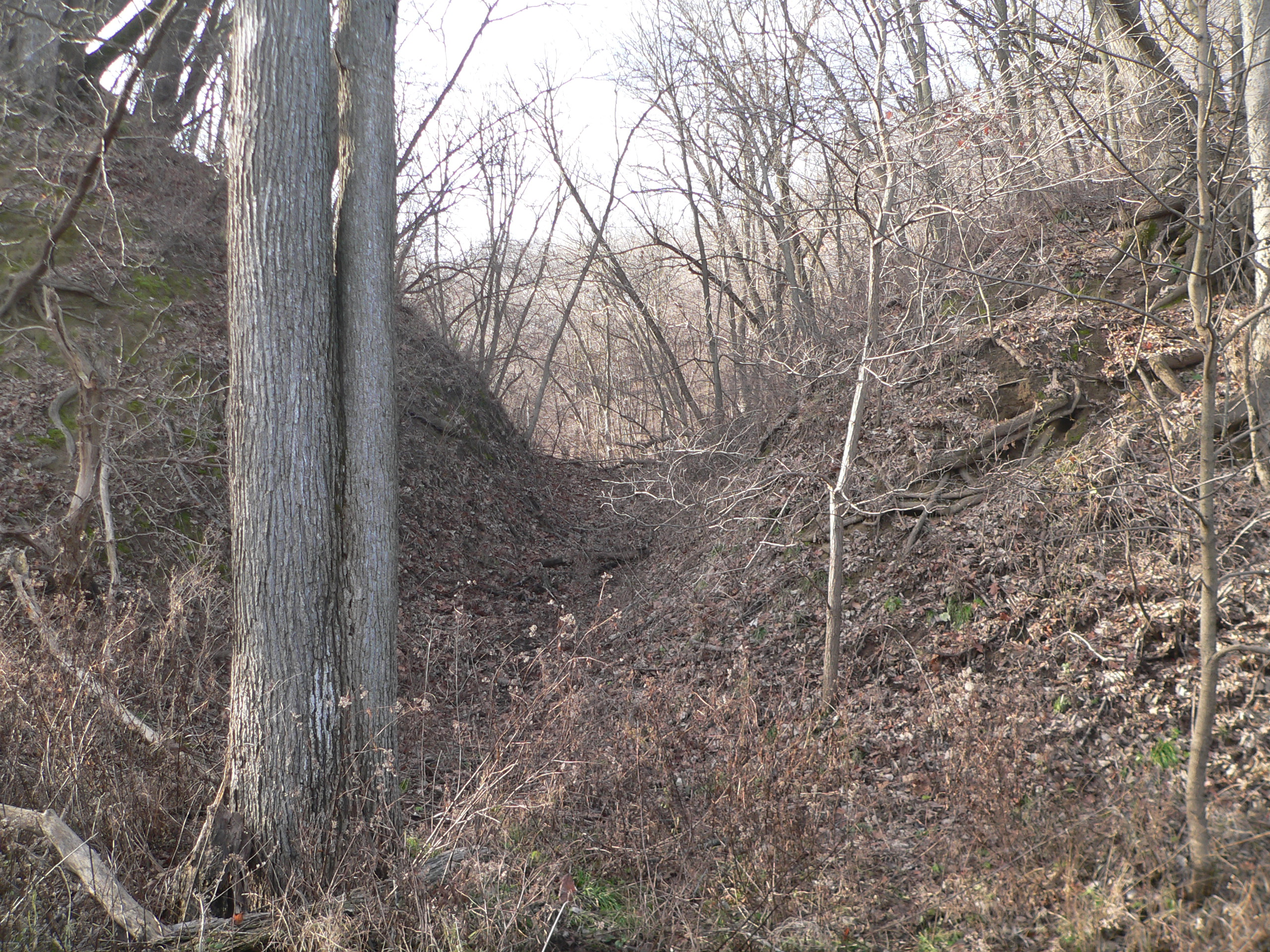 Ravine behind (west of) site of Engineer Cantonment in southeastern Washington County, Nebraska.